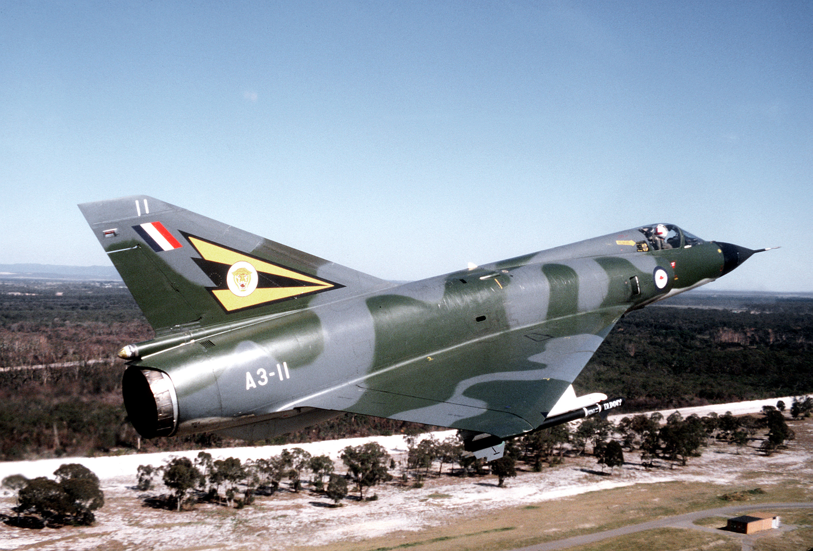 A right side view of a MIRAGE III E aircraft from the Royal Australian Air Force. The aircraft is taking part in a combined U.S.-Australian Air force exercise Pacific Consort.